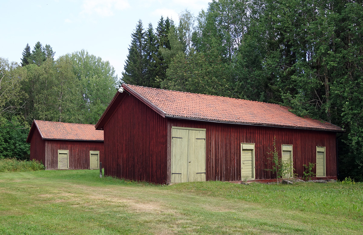 The only remaining buildings of the church town of Nysätra, Robertsfors Municipality, Västerbotten, Sweden, are two stables.